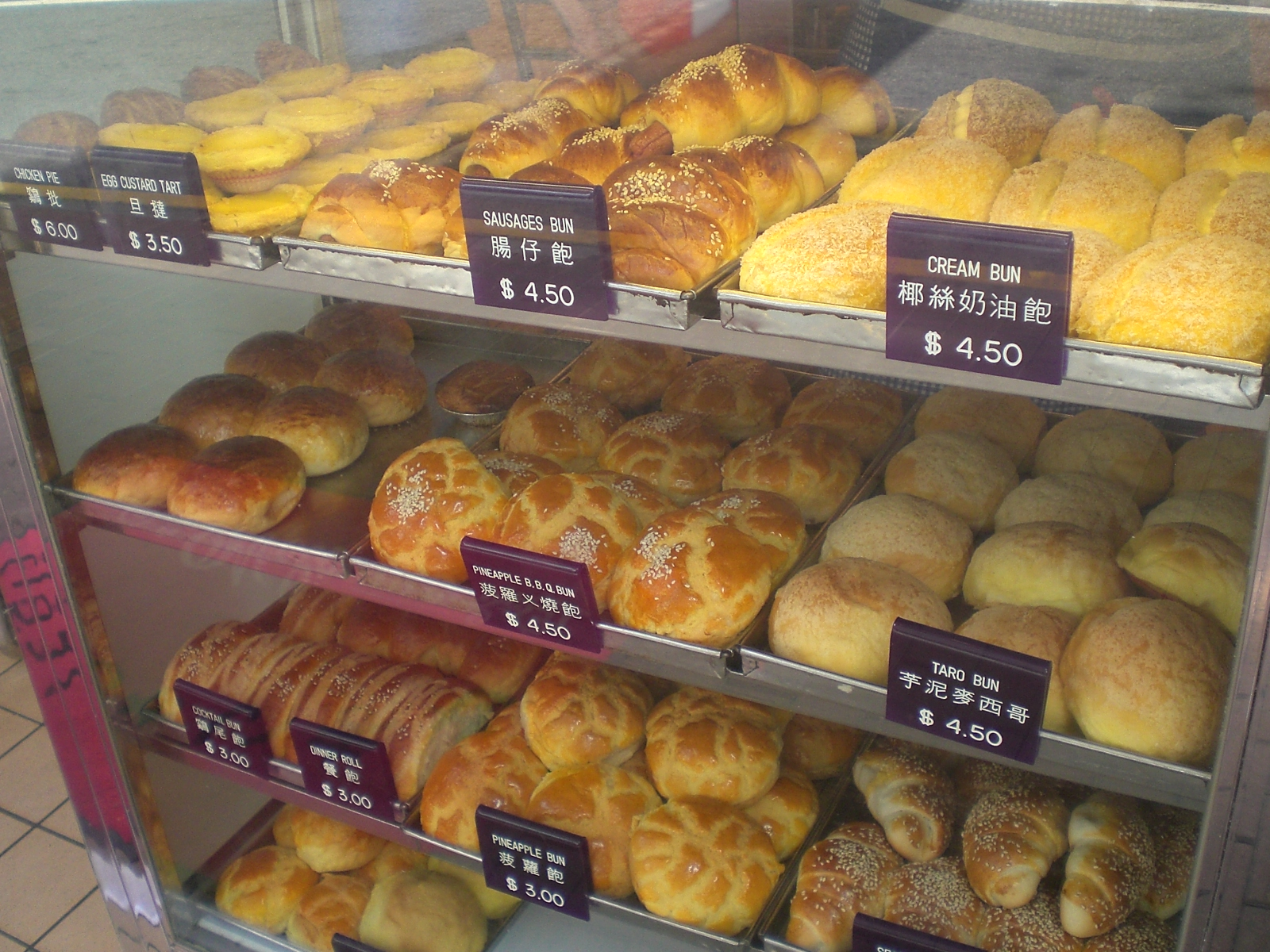 跑馬地成和道祥勝茶餐廳